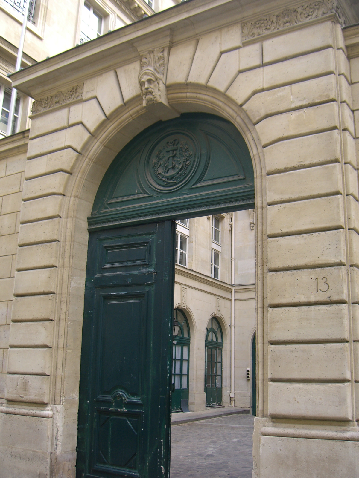 The photo of the former Paris building of the National school administration (ENA) with the Prime minister of France, at n°13 rue de l’Université, made by Sergey Zhirnoff, a former soviet spy